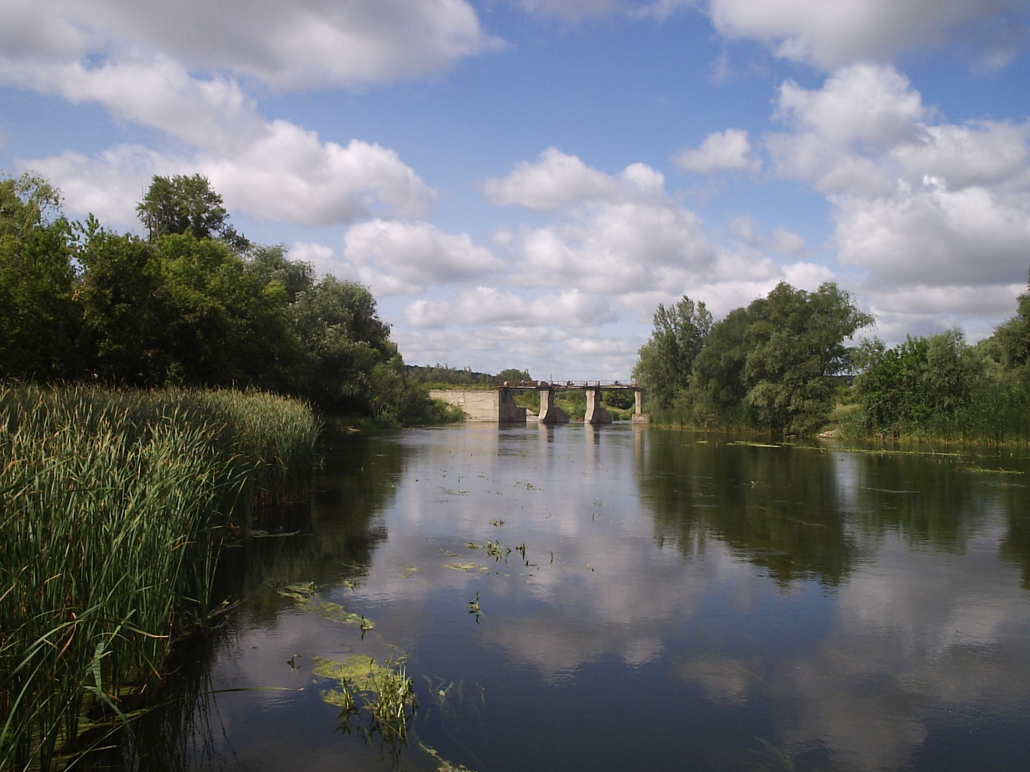 Aidar River at Starobelsk